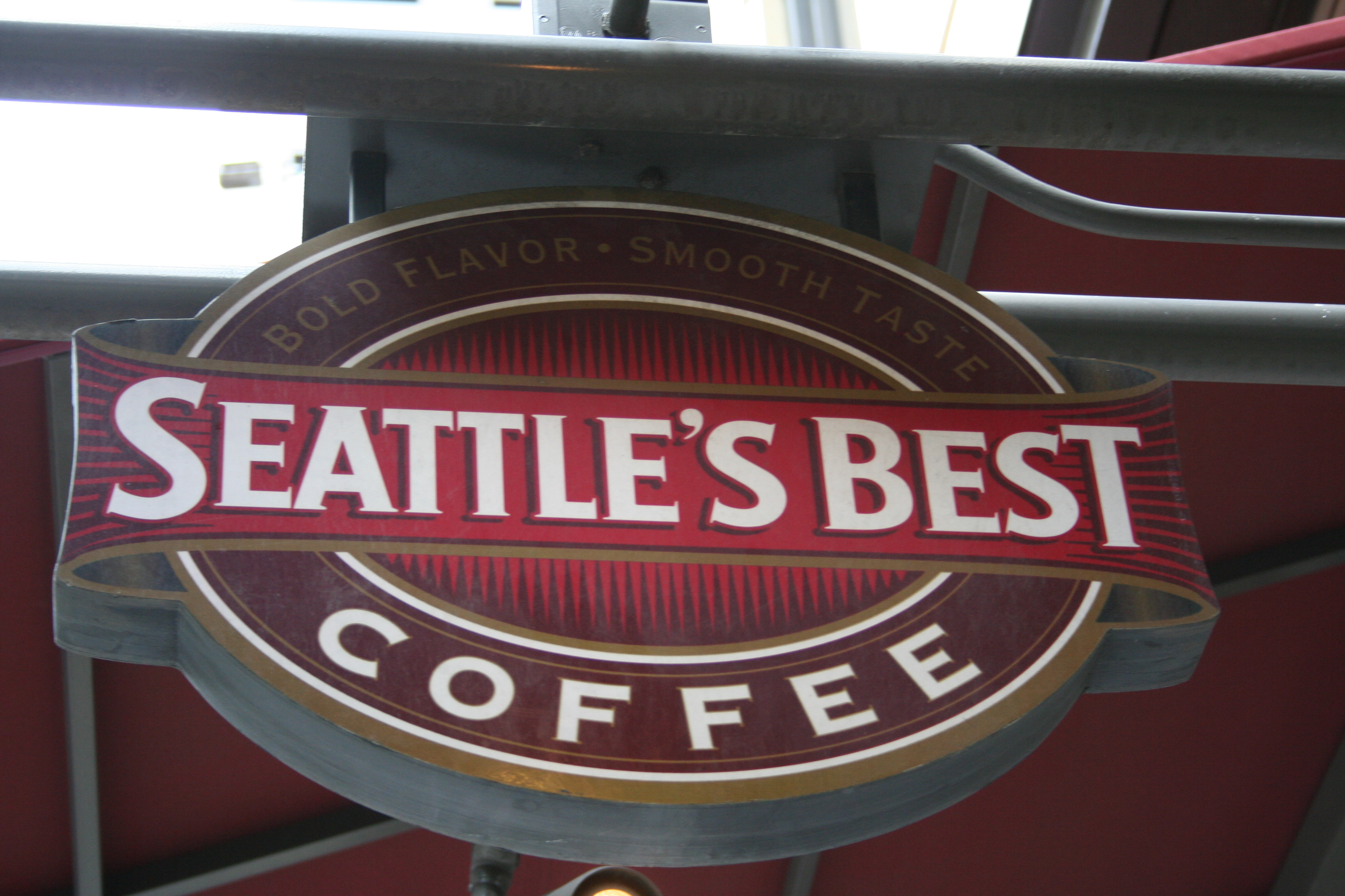 Seattle's Best Coffee, Seattle, Washington